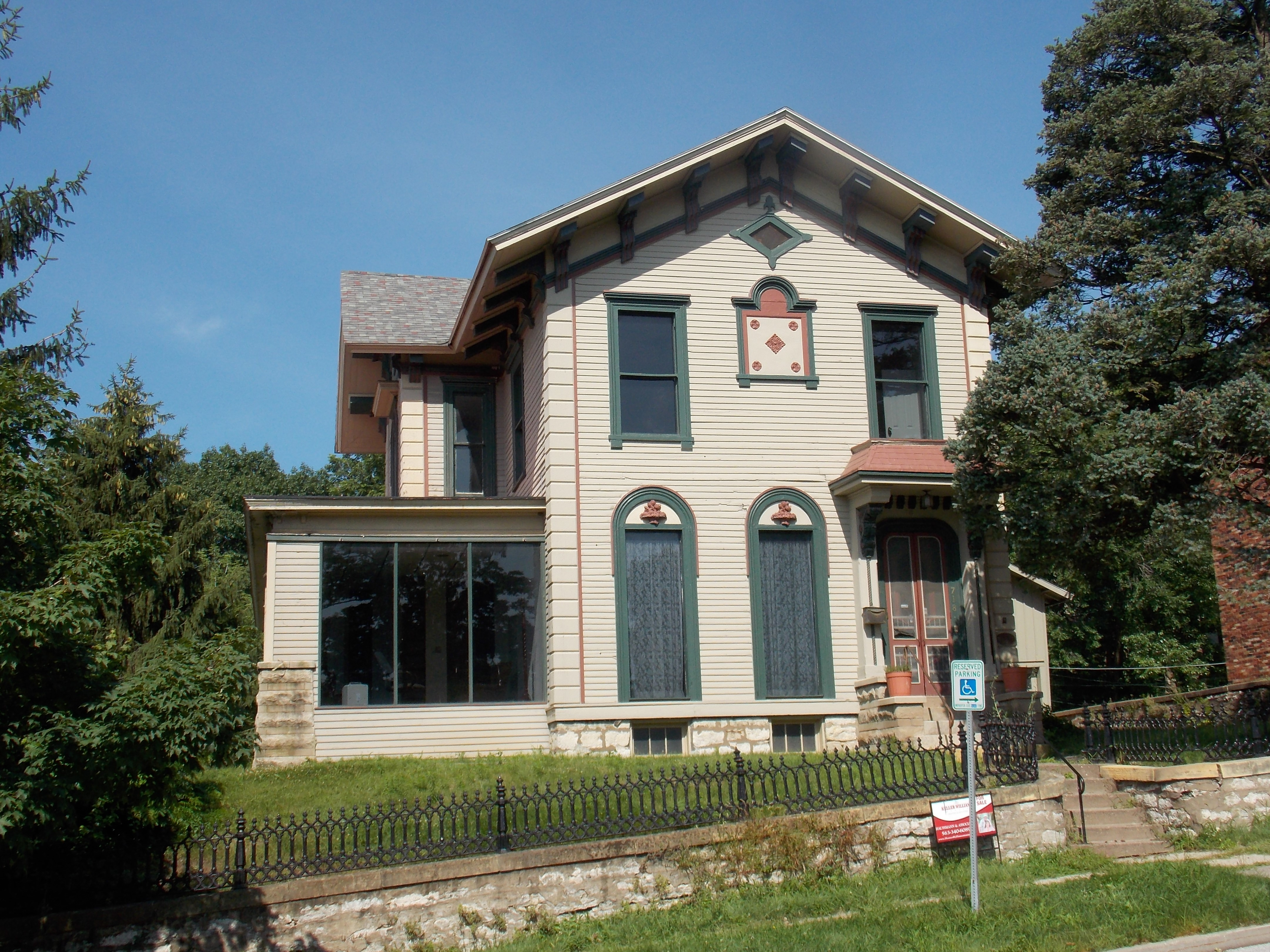 The John Forrest House is a contributing property in the Bridge Avenue Historic District, Davenport, Iowa.